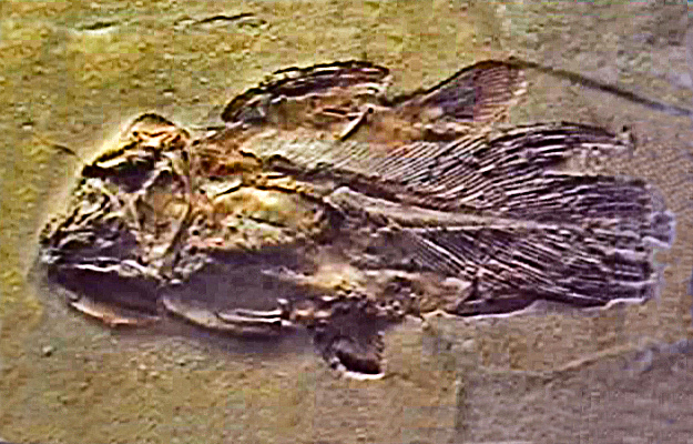 Libys superbus at the Naturhistorisches Museum, Wien